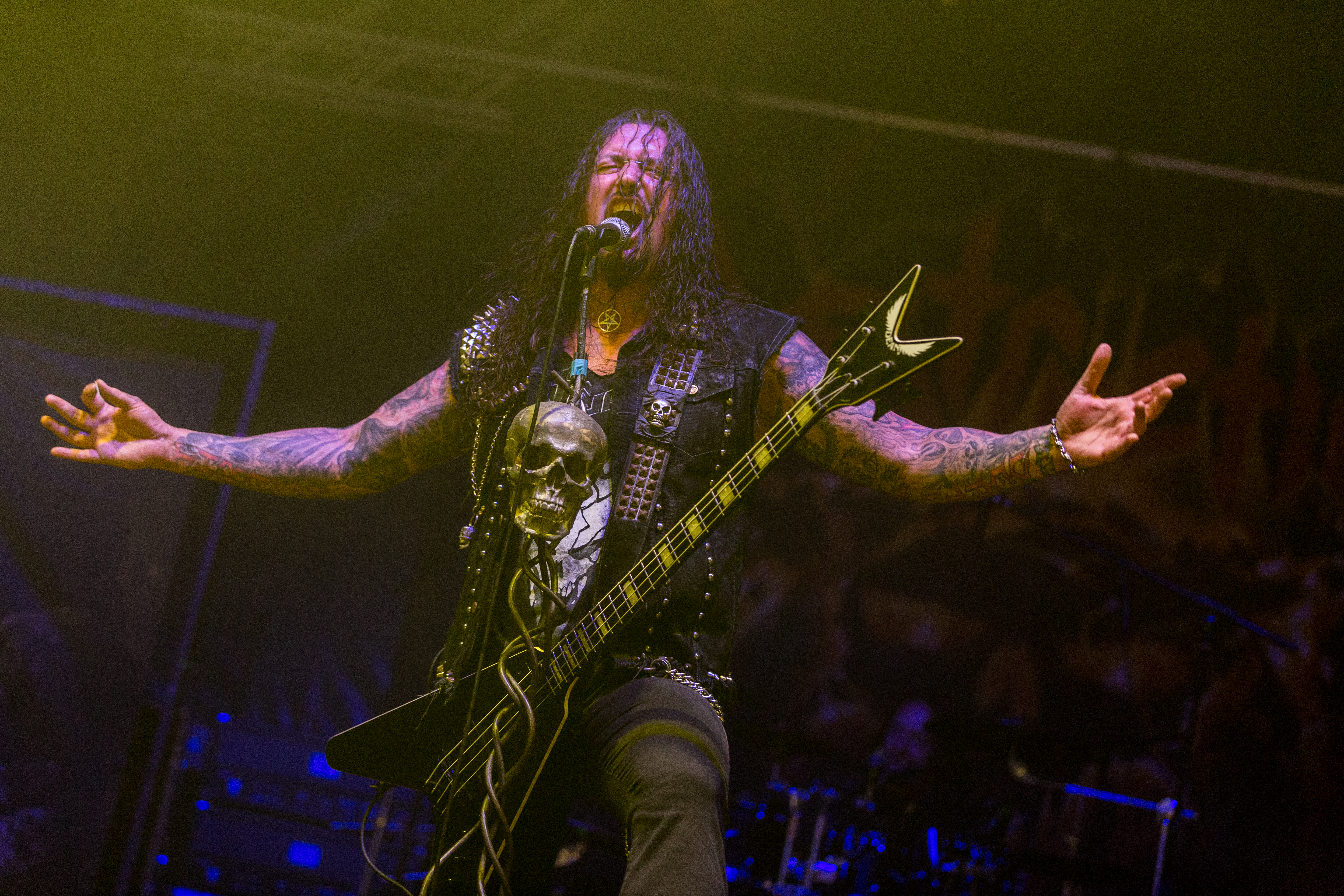 The German thrash metal band Destruction at the Metal Frenzy 2017 in Gardelegen/Germany.